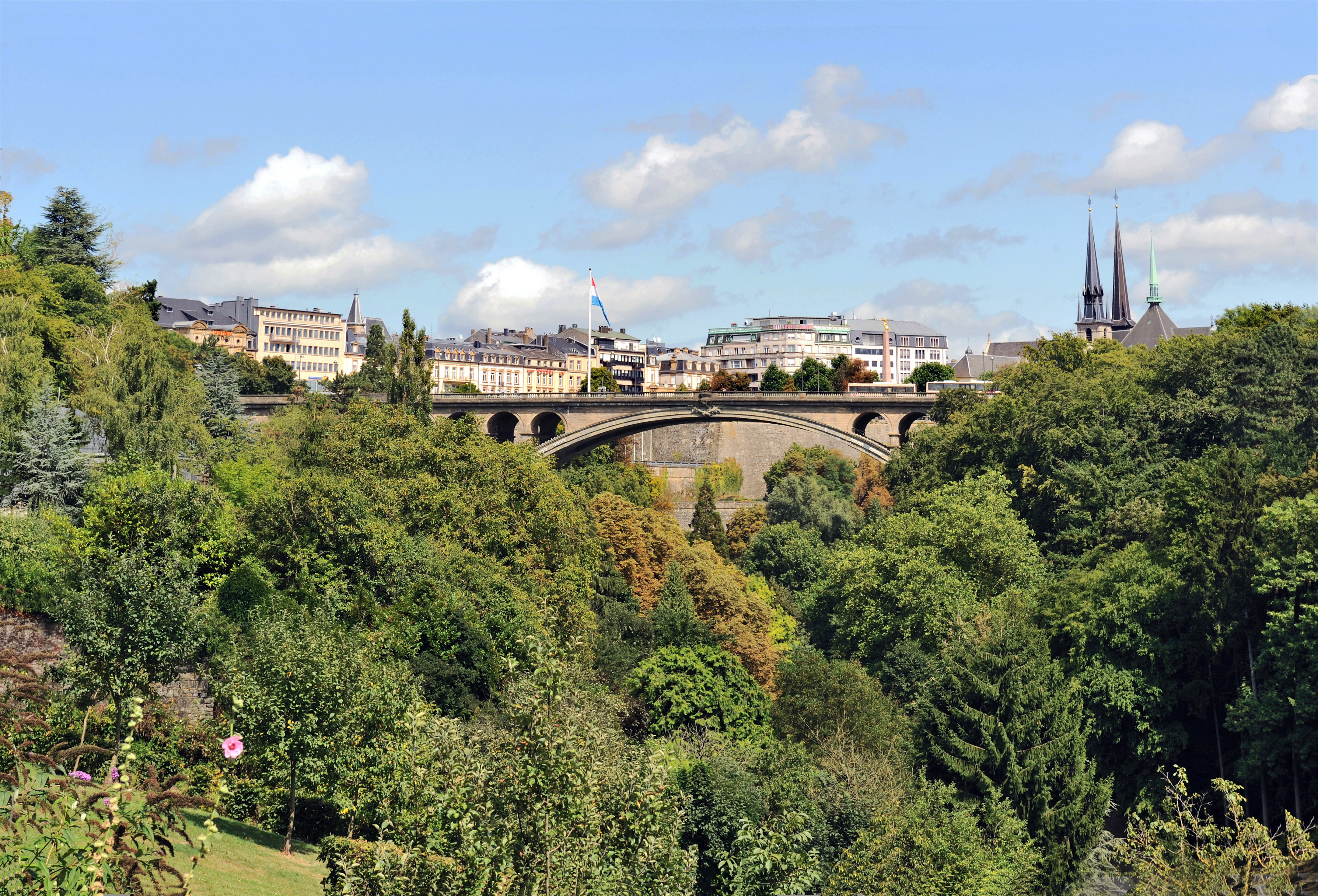 The Adolphe Bridge in Luxembourg City stretching over the Petrusse Valley.